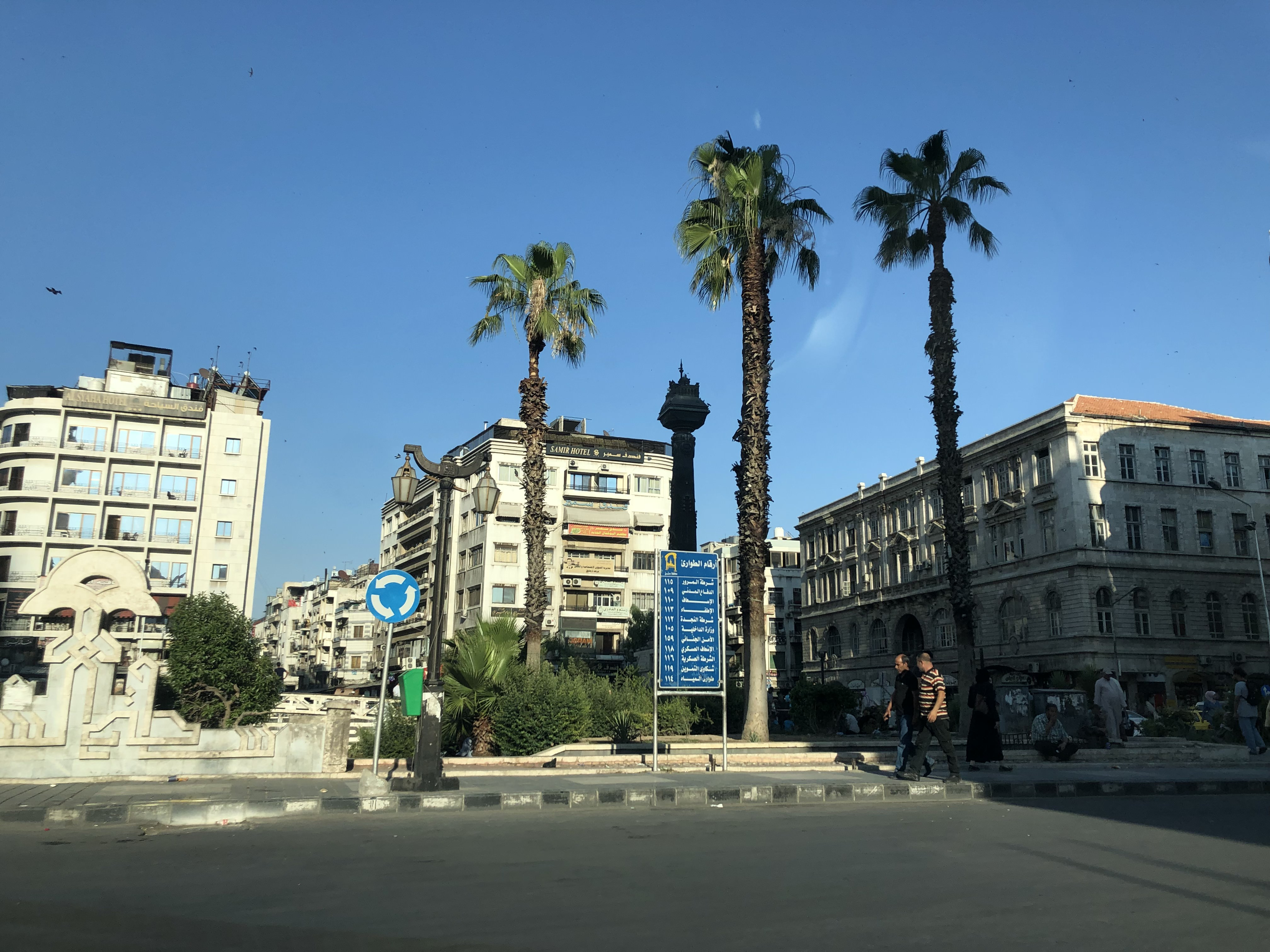 Marjeh square in the summer of 2019